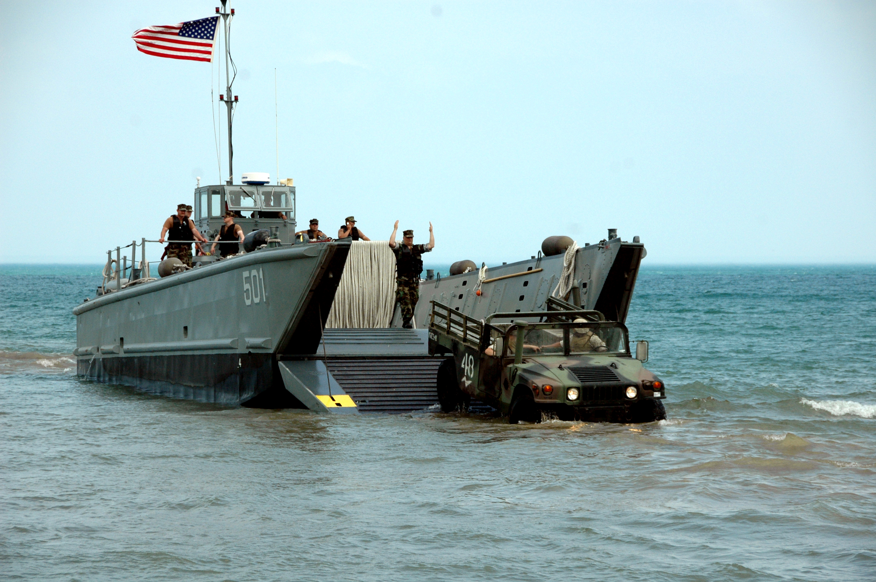 NAVAL STATION GREAT LAKES, Ill. (June 7, 2008) Landing Craft Mechanized 501 (LCM-501) and the "Surfriders" from Assault Craft Unit One (ACU-1), perform an on load of a Marine Corps vehicle assigned to Reserve Marine Air Control Group 48. ACU-1 and MCAG-48 demonstrated several beach landings and on and off loads for Reserve Sailors and family members attending a Family Fun Day hosted by the Navy Operational Support Center Great Lakes. U.S. Navy photo by Scott A. Thornbloom (Released)